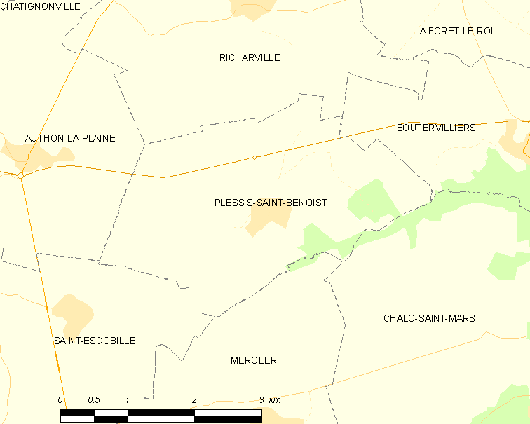 Map of French municipality Plessis-Saint-Benoist